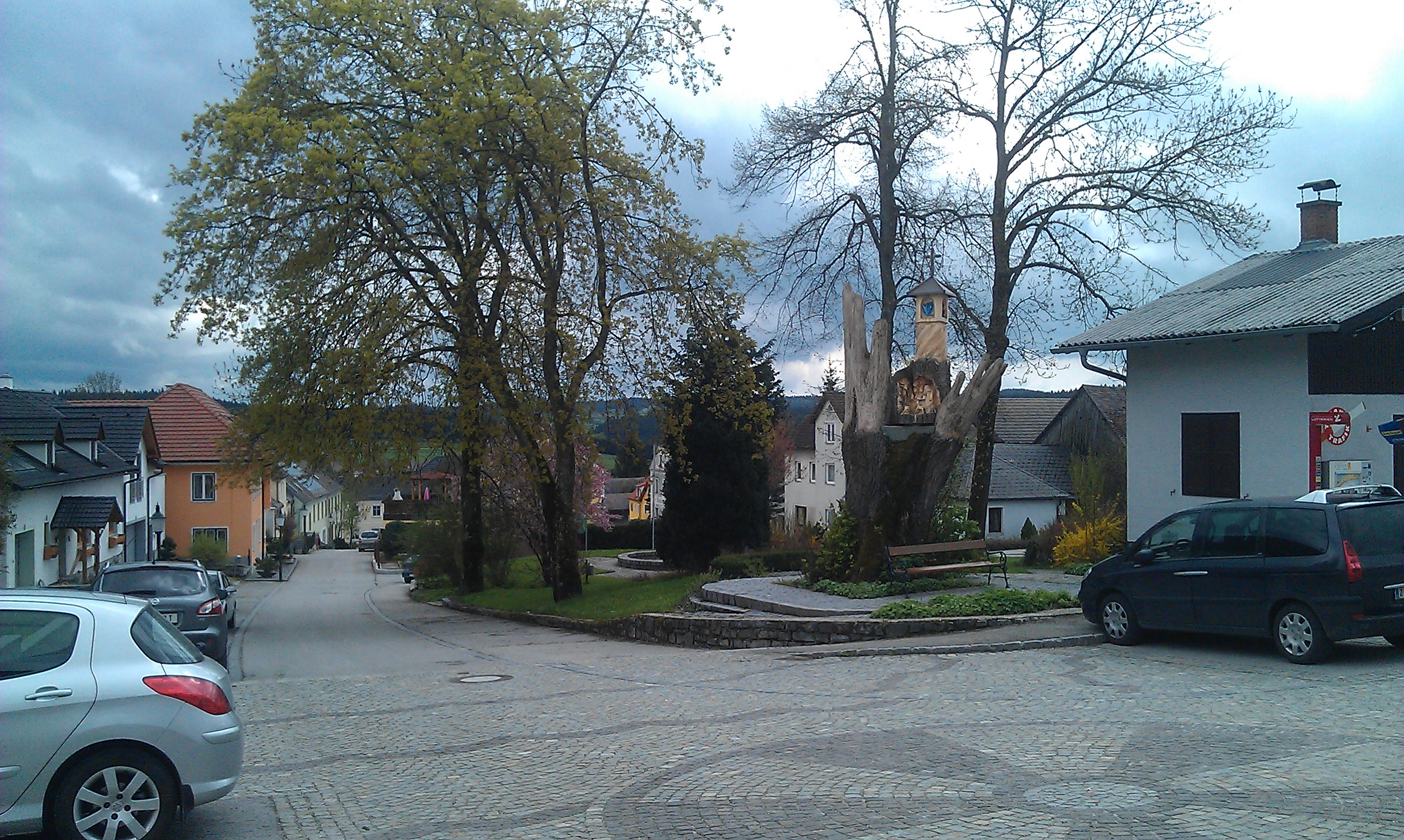 village square in Sallingberg, Austria